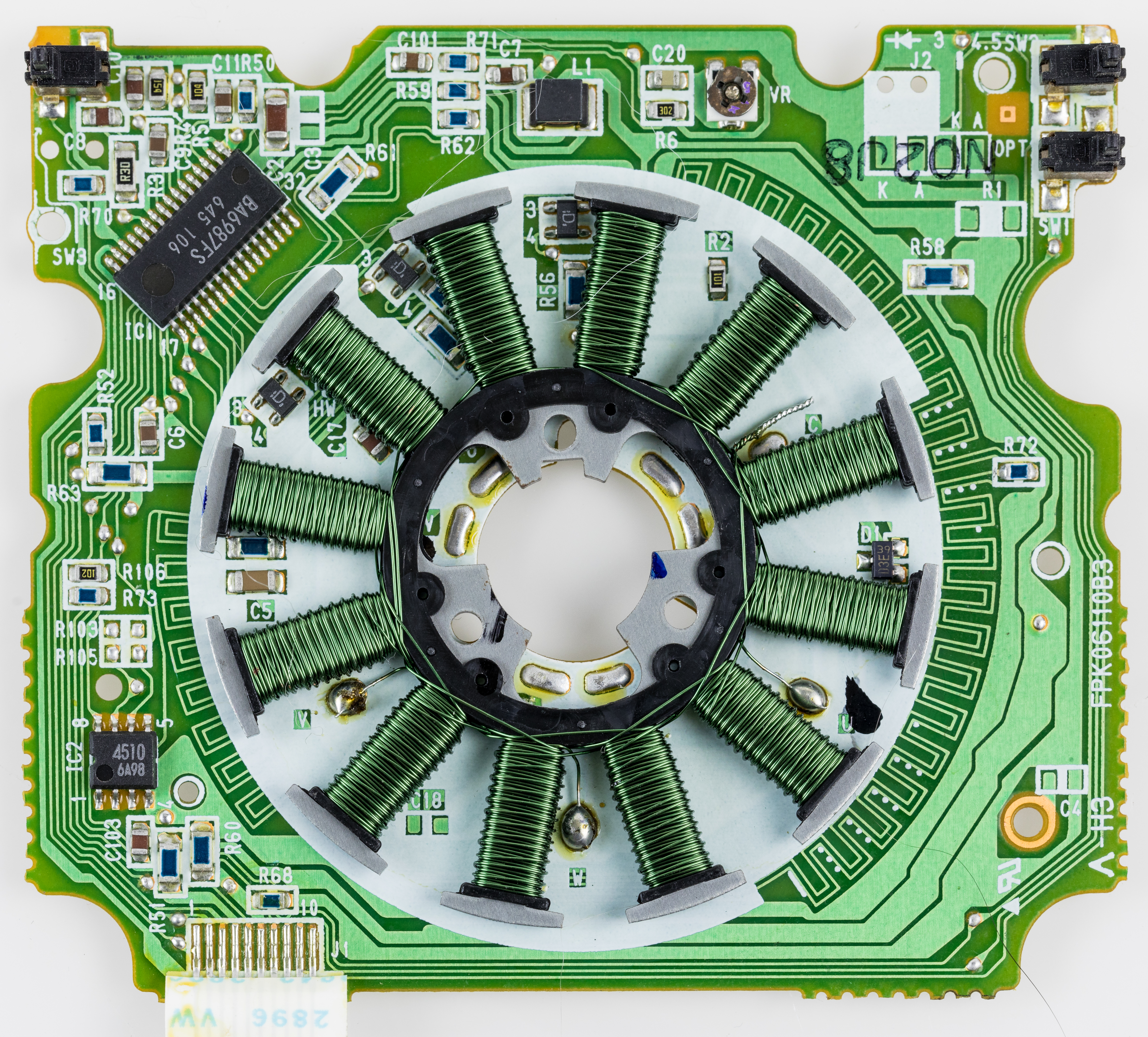 Panasonic JU-268A016C - disc motor with controller board